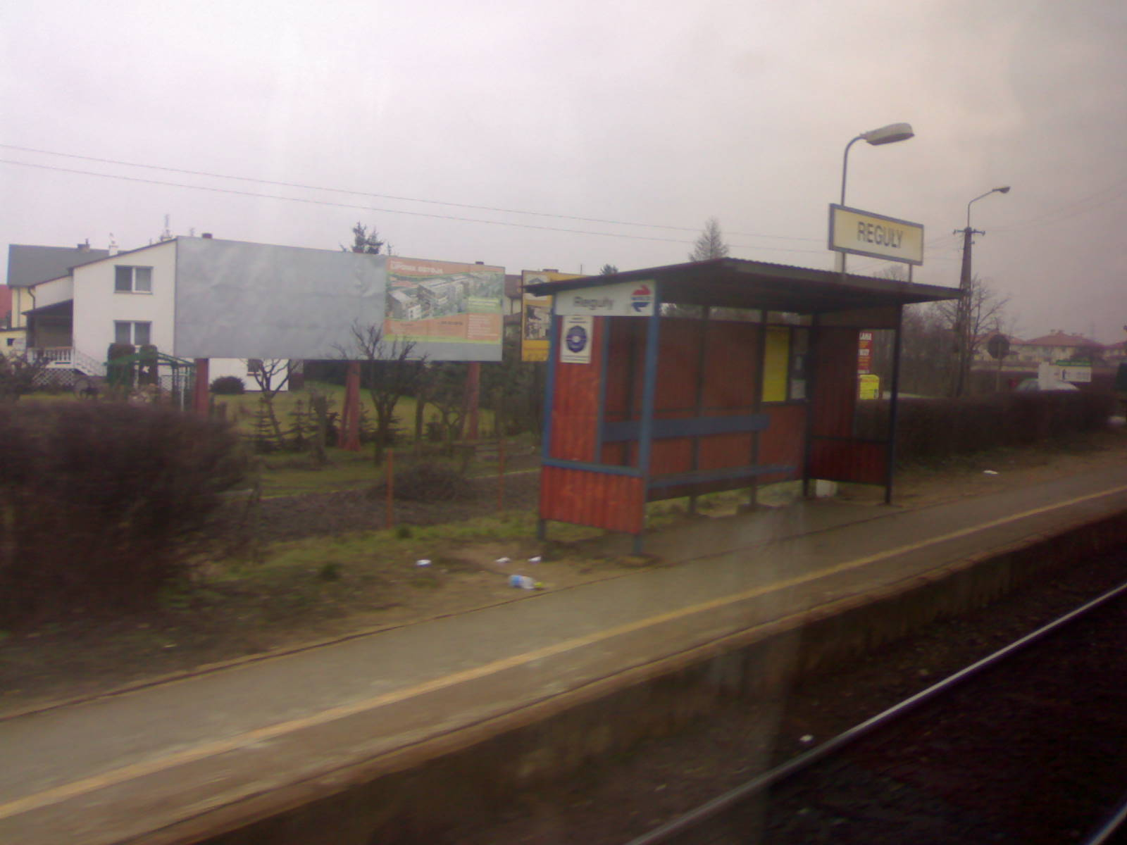 WKD train stop in Reguly